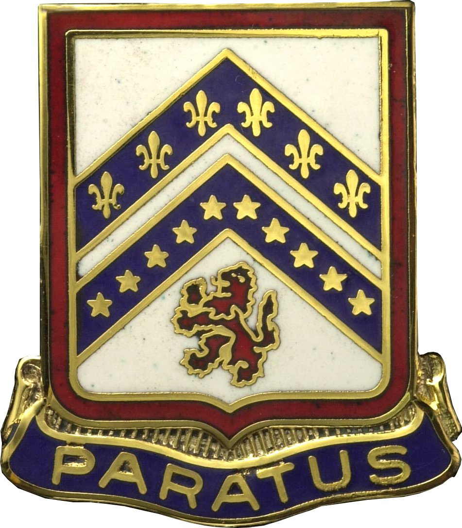 DUI of 103rd Engineer Battalion (ARNG PA)